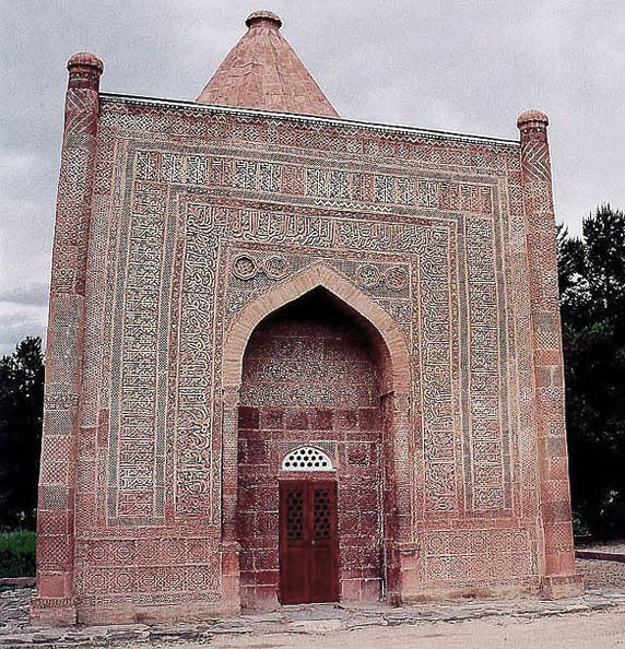 Picture of the alleged burial place of the hero of the Manas epic